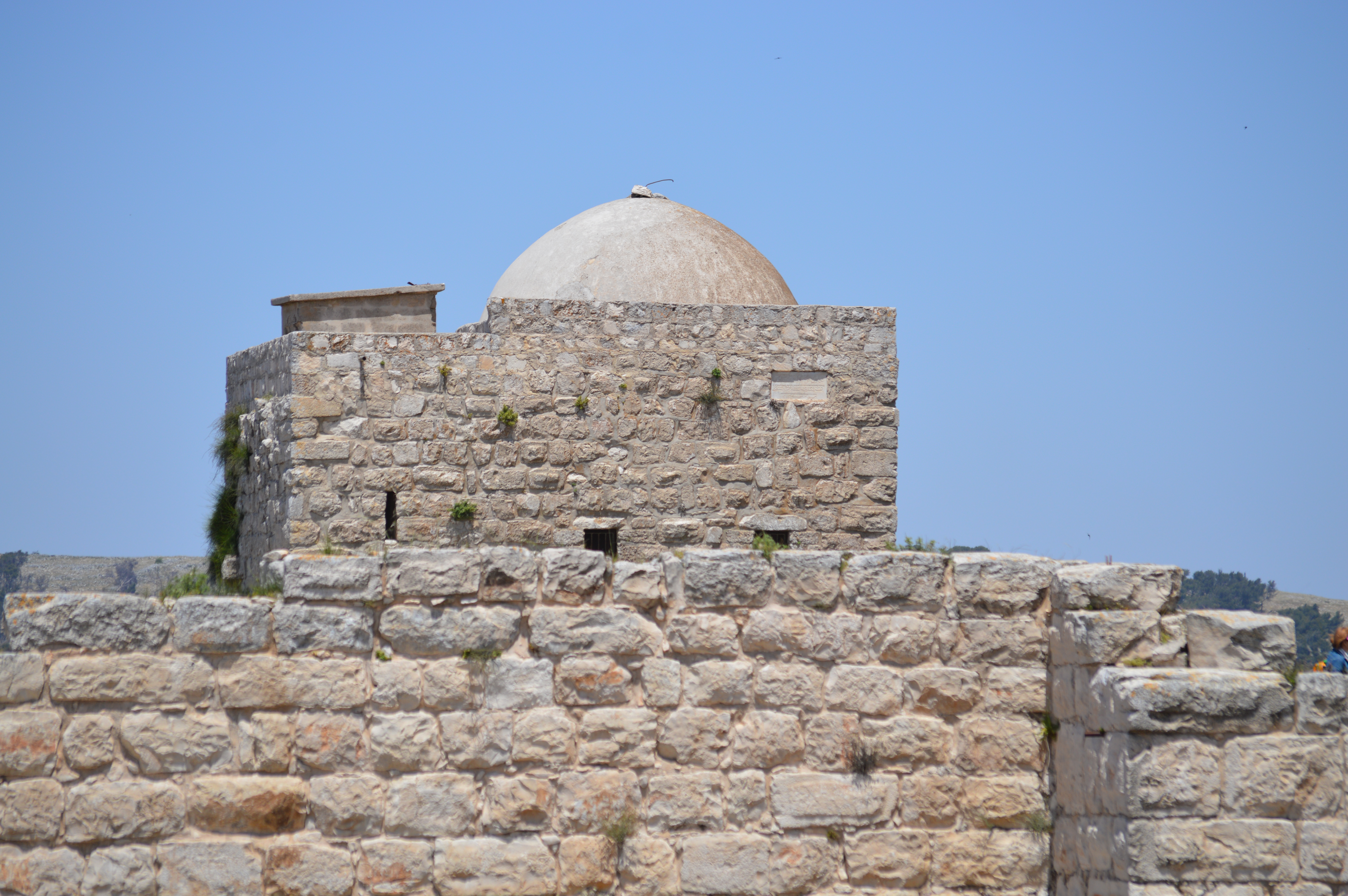 Mount Gerizim National Park